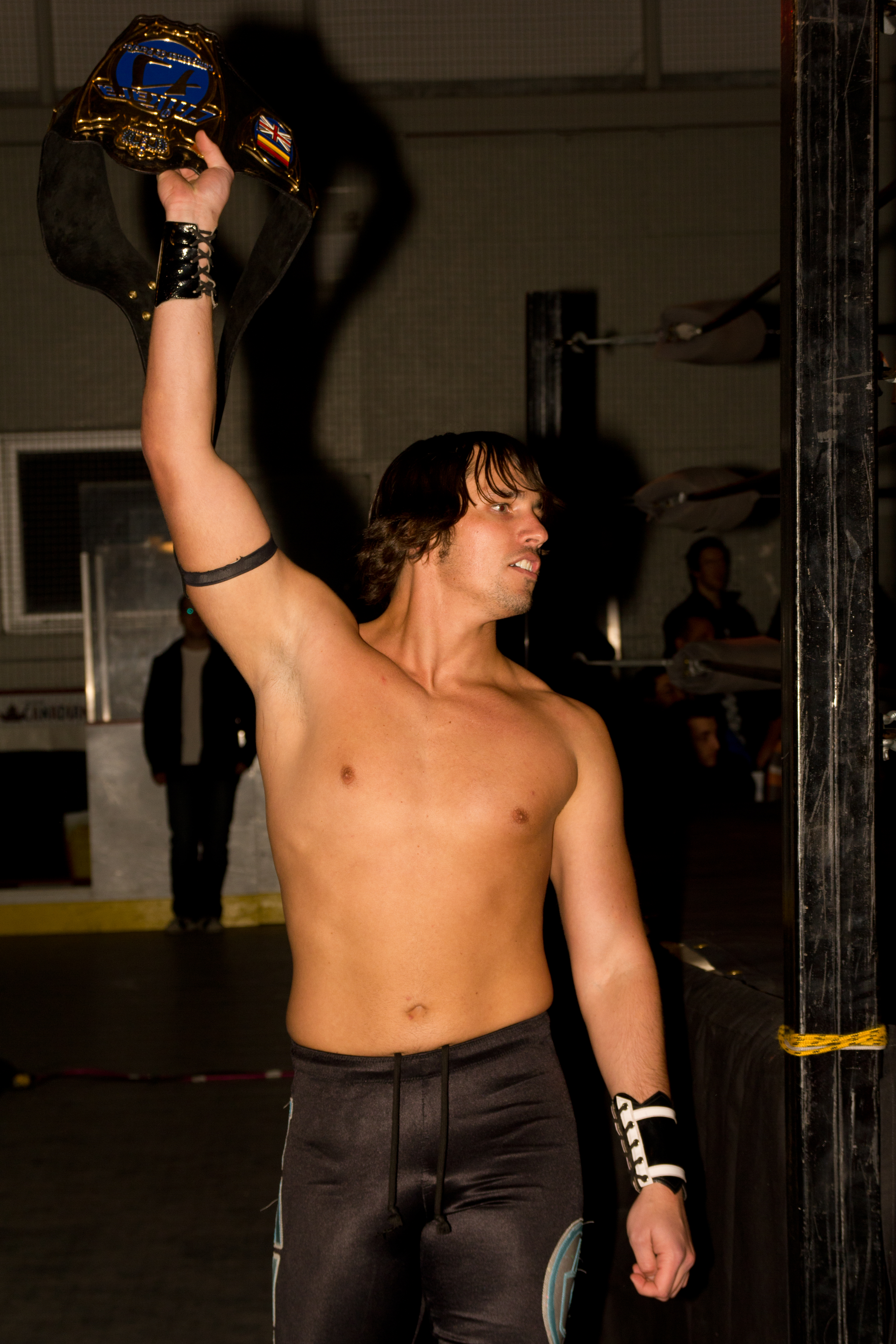 Professional wrestler Chuck Taylor with one-half of the Campeonatos de Parejas (couples championship) at a Chikara show in March 2012.